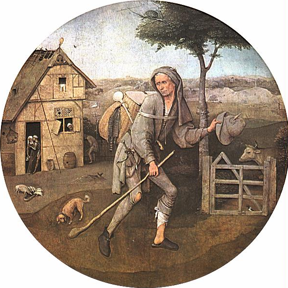 A thin man wearing grey clothes is walking, holding his hat in his left hand. In his right hand he is holding a stick fending off an angry dog. On his back he is carrying a large basket. This type of basket was normally used by peddlers in the 16th century in the Netherlands. To the left an inn (and possibly also a brothel). To the right a path leading into a field where a cow and a magpie seem to watch the man. Above the man, in a tree, an owl is gazing at a great tit. In the background a gallows stands on a hill.